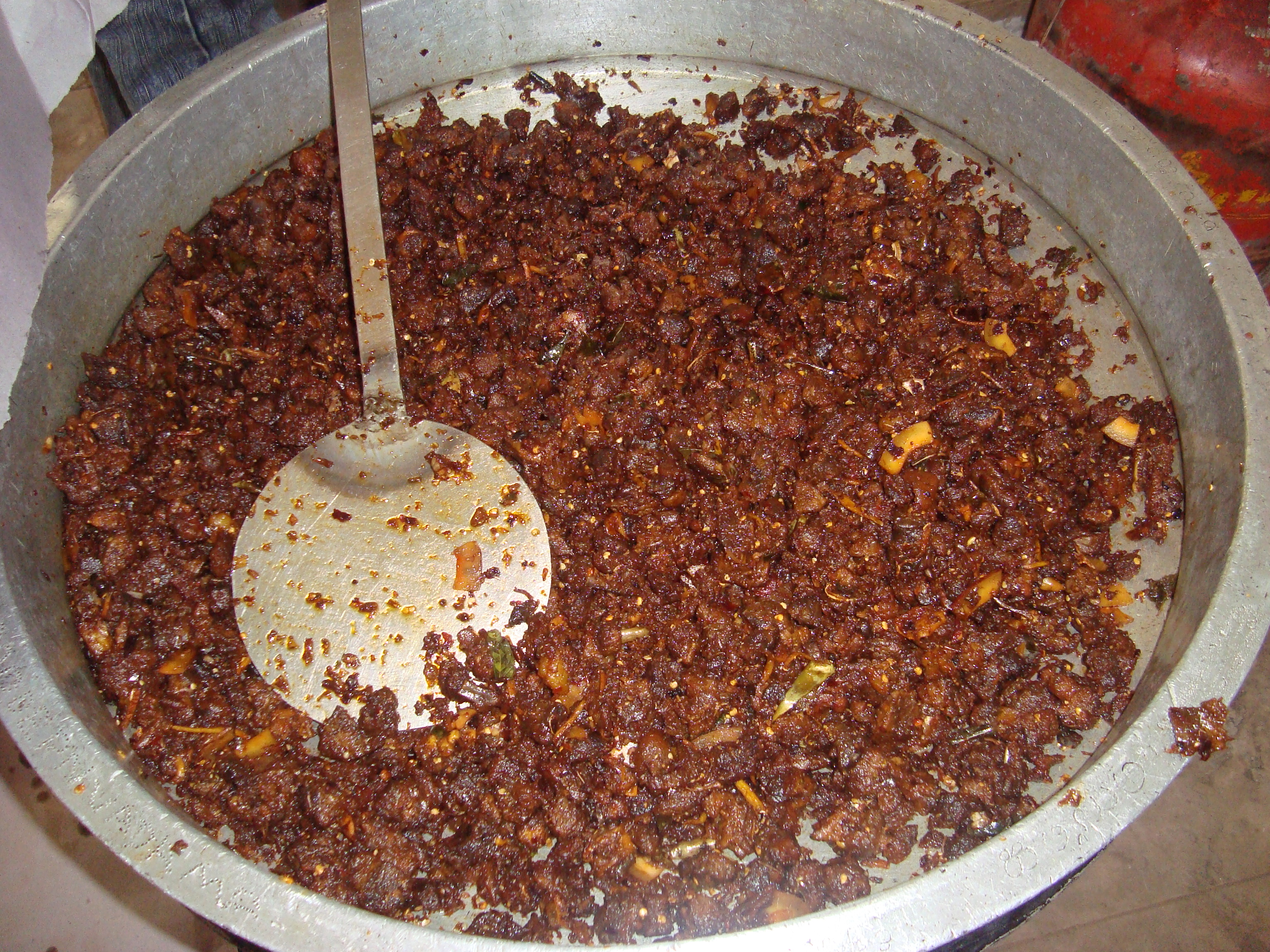 Beef fry